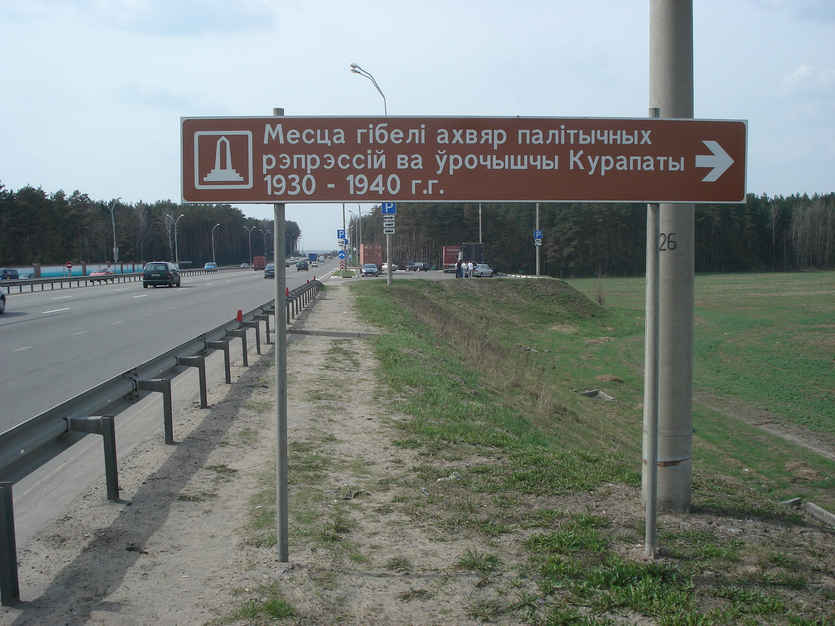 Kurapaty. Roadway Marker